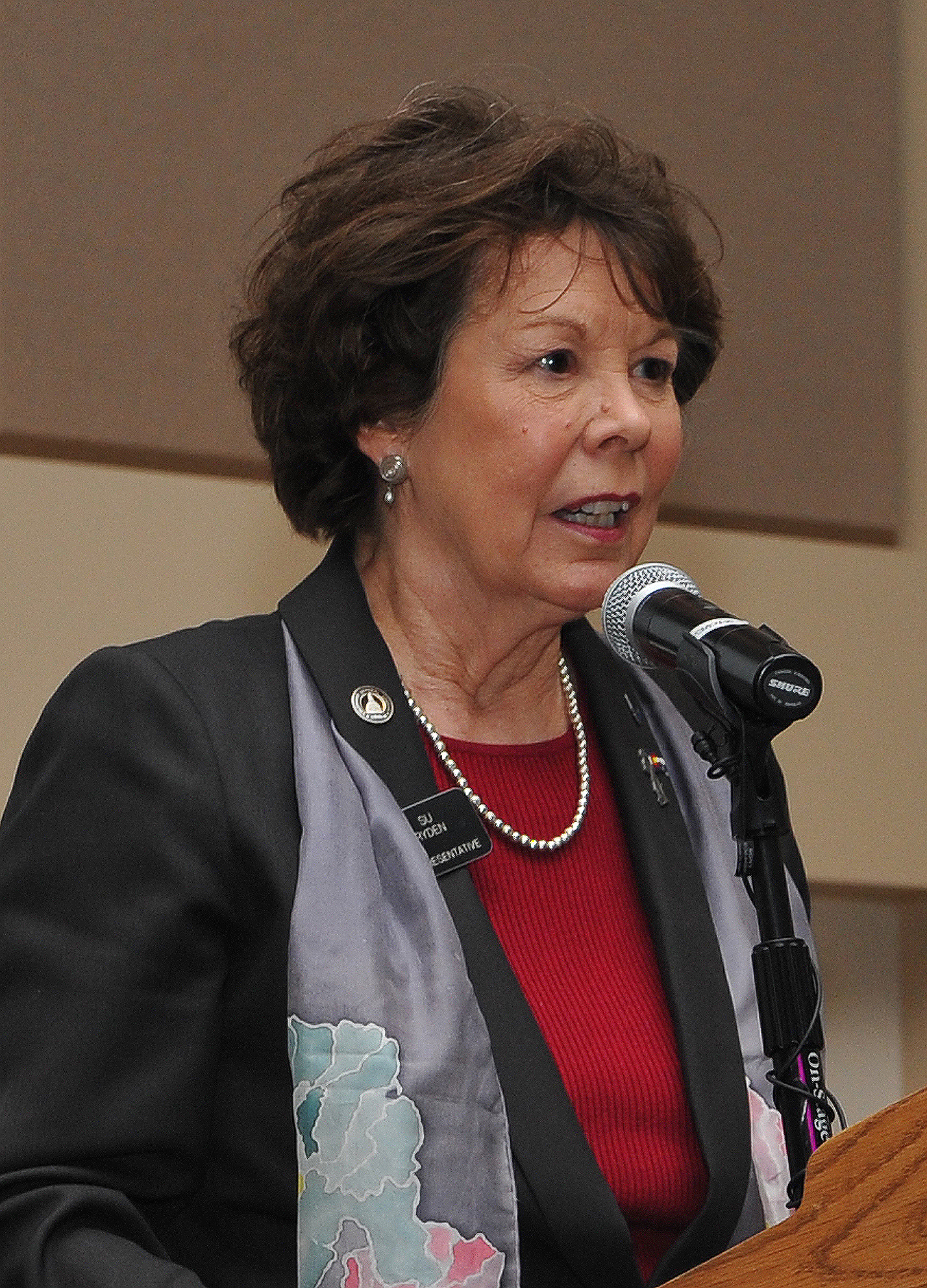 BUCKLEY AIR FORCE BASE, Colo. – Representative Su Ryden, Colorado House of Representatives, speaks briefly after receiving a Community Hero of Buckley award Jan. 8, 2013, during a luncheon at the Leadership Development Center. Ryden received this award for her lobbying of support for Buckley to the state.